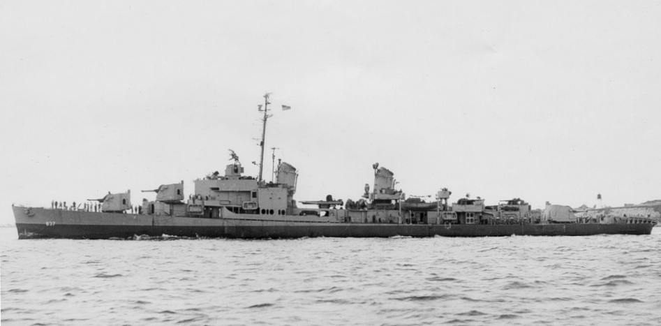 The U.S. Navy Gearing-class destroyer USS Sarsfield (DD-837) off Boston, Massachusetts (USA), on 23 August 1945. Sarsfield was built at Bath Iron Works, Maine (USA), and commissioned on 31 July 1945. She wears camouflage measure 22.